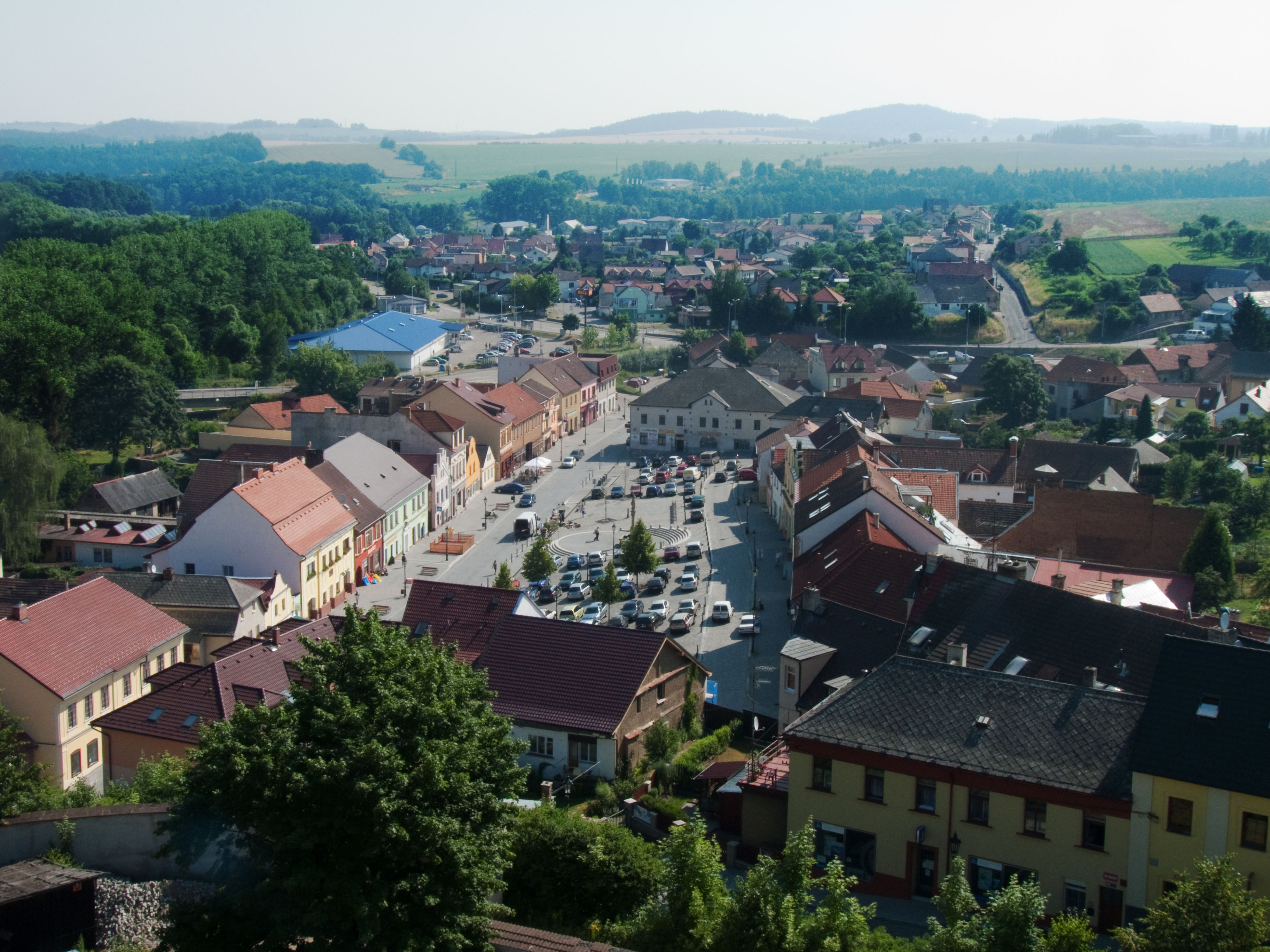 View of the town of Vlašim from the castle tower, Benešov district, Czech Republic